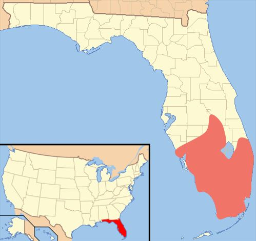 Range map based on Bailey, A. M., Ober, H. K., Sovie, A. R., & McCleery, R. A. (2017). Impact of land use and climate on the distribution of the endangered Florida bonneted bat. Journal of Mammalogy, 98(6), 1586-1593.